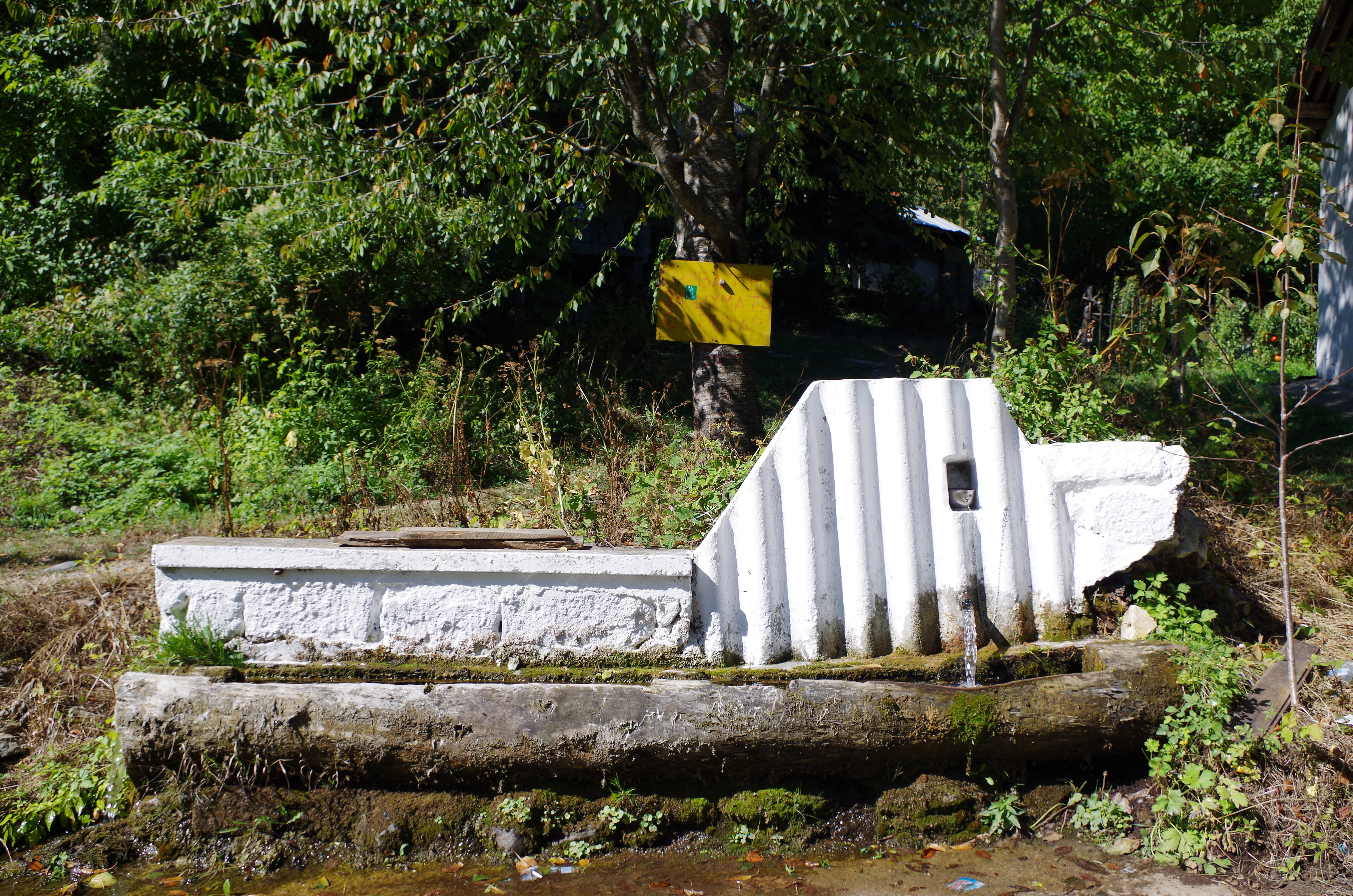 Village pump in Majden